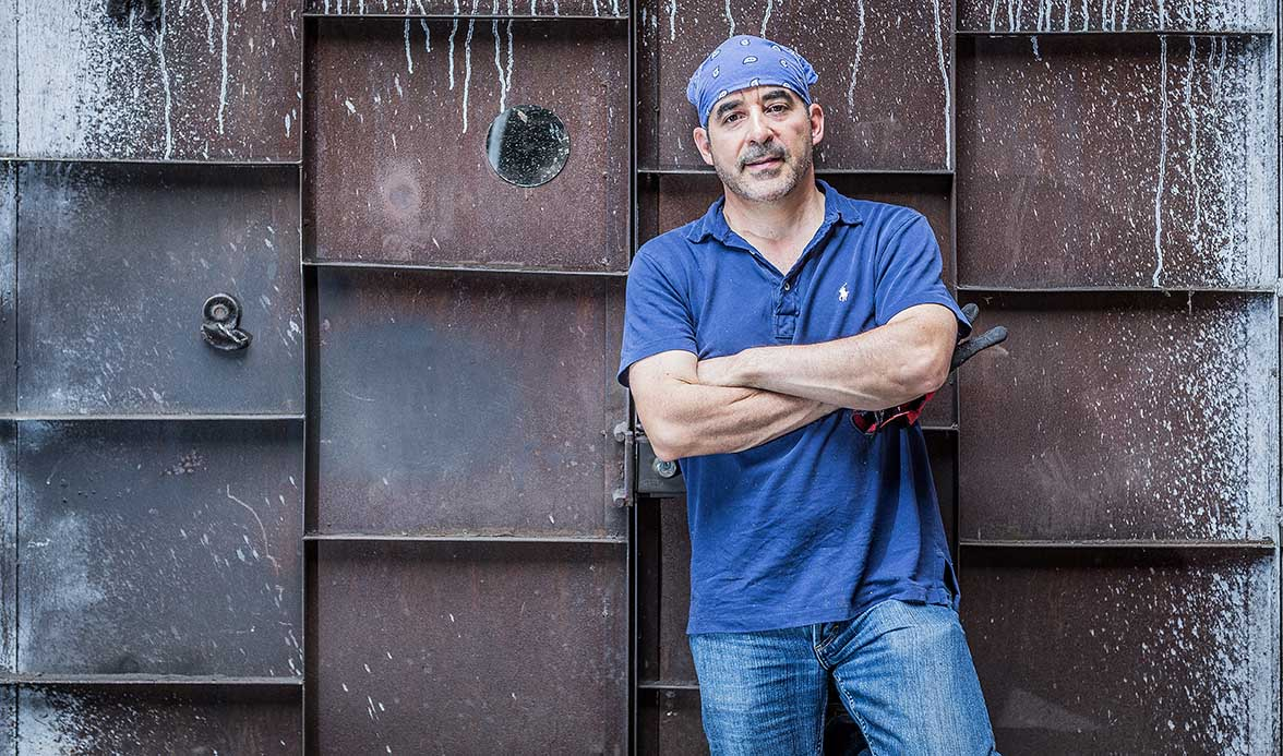 Workshop